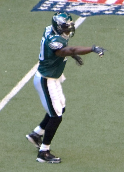 Darren Howard during an Eagles defensive formation against the Dallas Cowboys